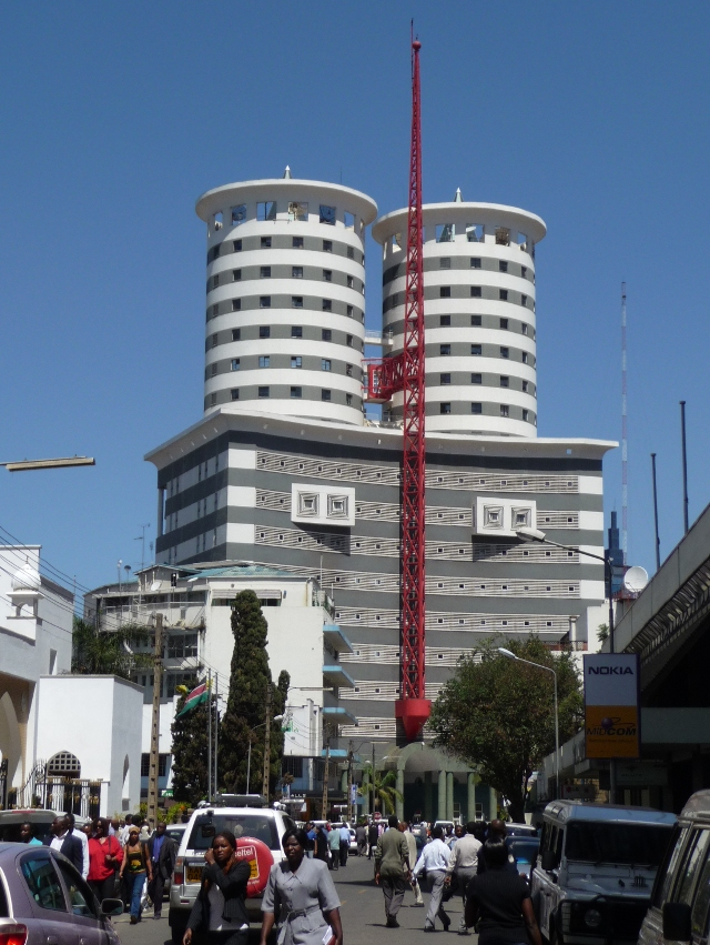 Nation House, Nairobi